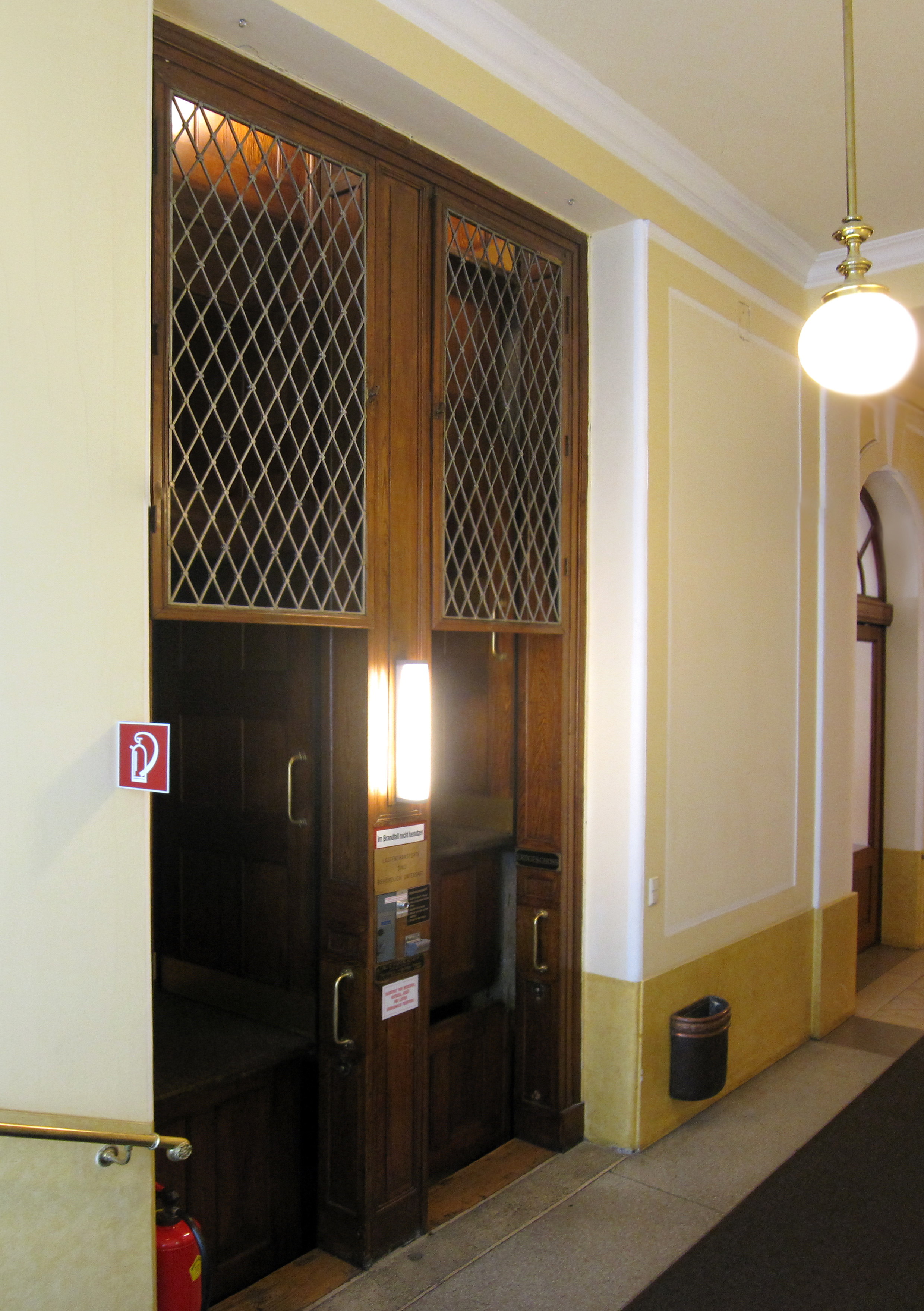 Anton Freissler paternoster F. Nr. 6295 (1910) in the House of Industry, Vienna.Anton Freissler paternoster F. Nr. 6295 (1910) in the House of Industry, Vienna.